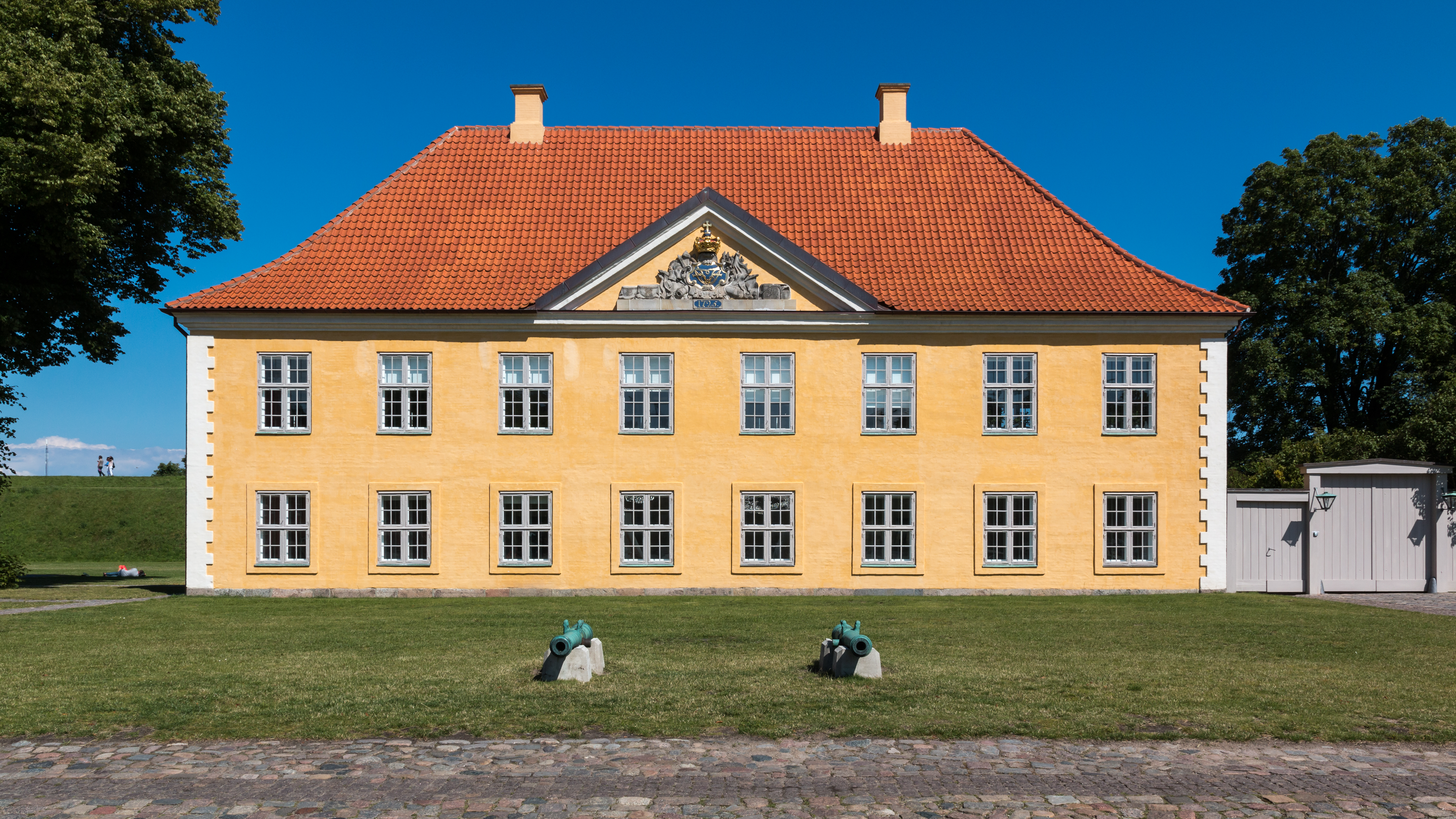 Kommandantgården, Citadellet Frederikshavn, Copenhagen, Denmark